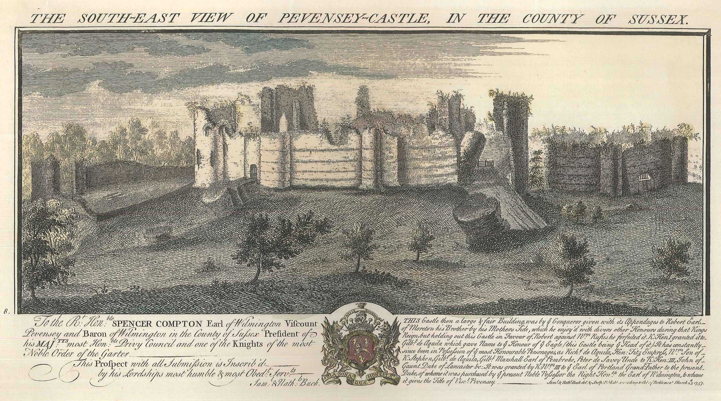 The South-East View of Pevensey-Castle, in the County of Sussex